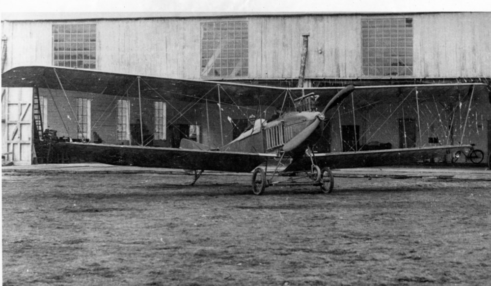 AEG B.I 1914. PictionID:43449520 - Title:AEG B I 1914 Nowarra photo - Catalog:16_004024 - Filename:16_004024.TIF - - - - - - Image from the Ray Wagner Collection. Ray Wagner was Archivist at the San Diego Air and Space Museum for several years and is an author of several books on aviation --- ---Please Tag these images so that the information can be permanently stored with the digital file.---Repository: San Diego Air and Space Museum